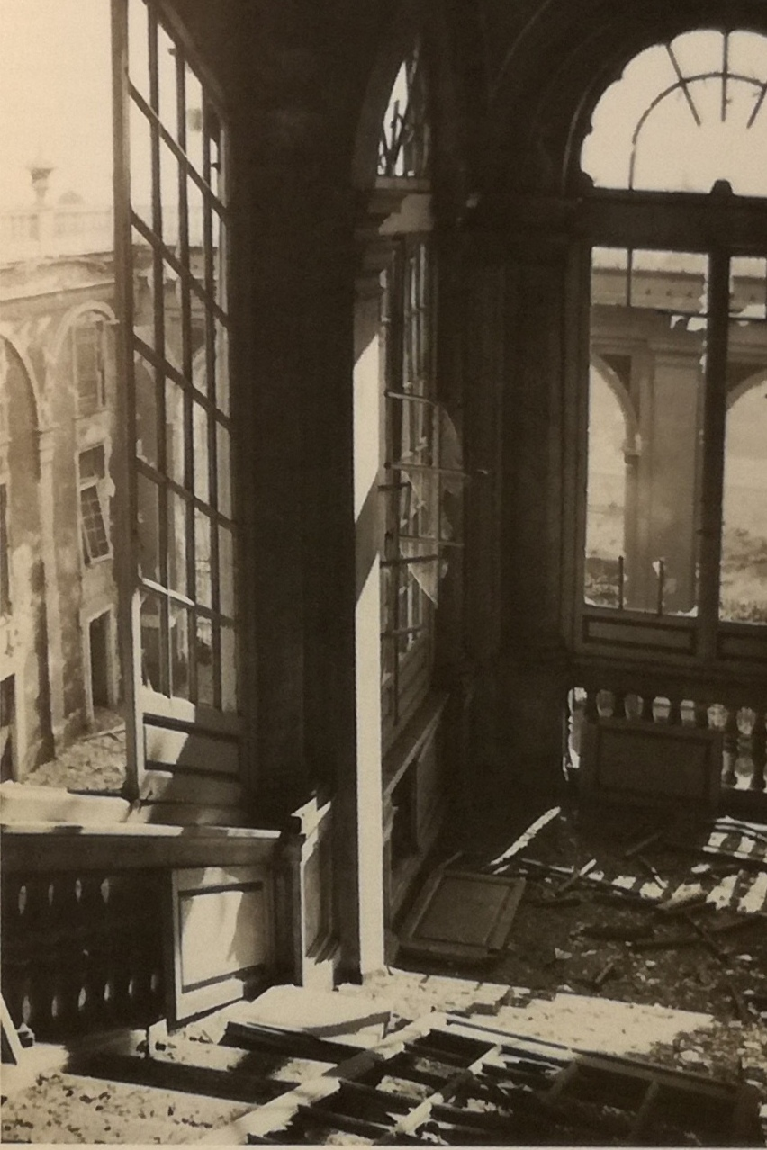 Allied bombings against Italy in World War II, Genoa Royal Palace